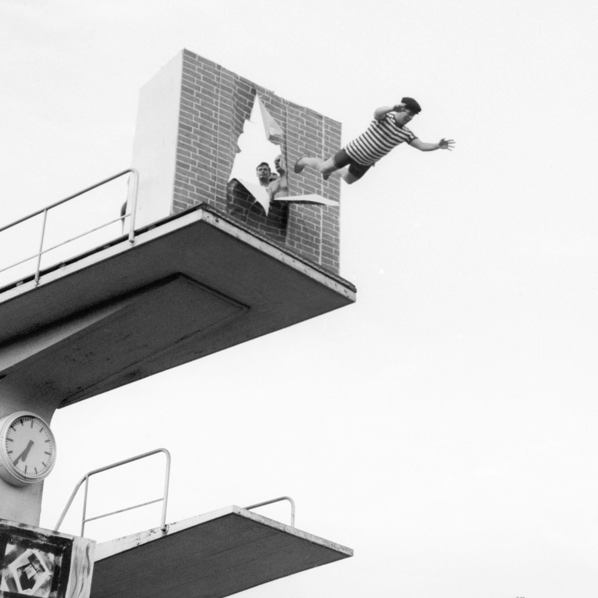 Photograph of the Finnish actor Simo Salminen (1932–2015) a.k.a. Liukas Lätkä performing.